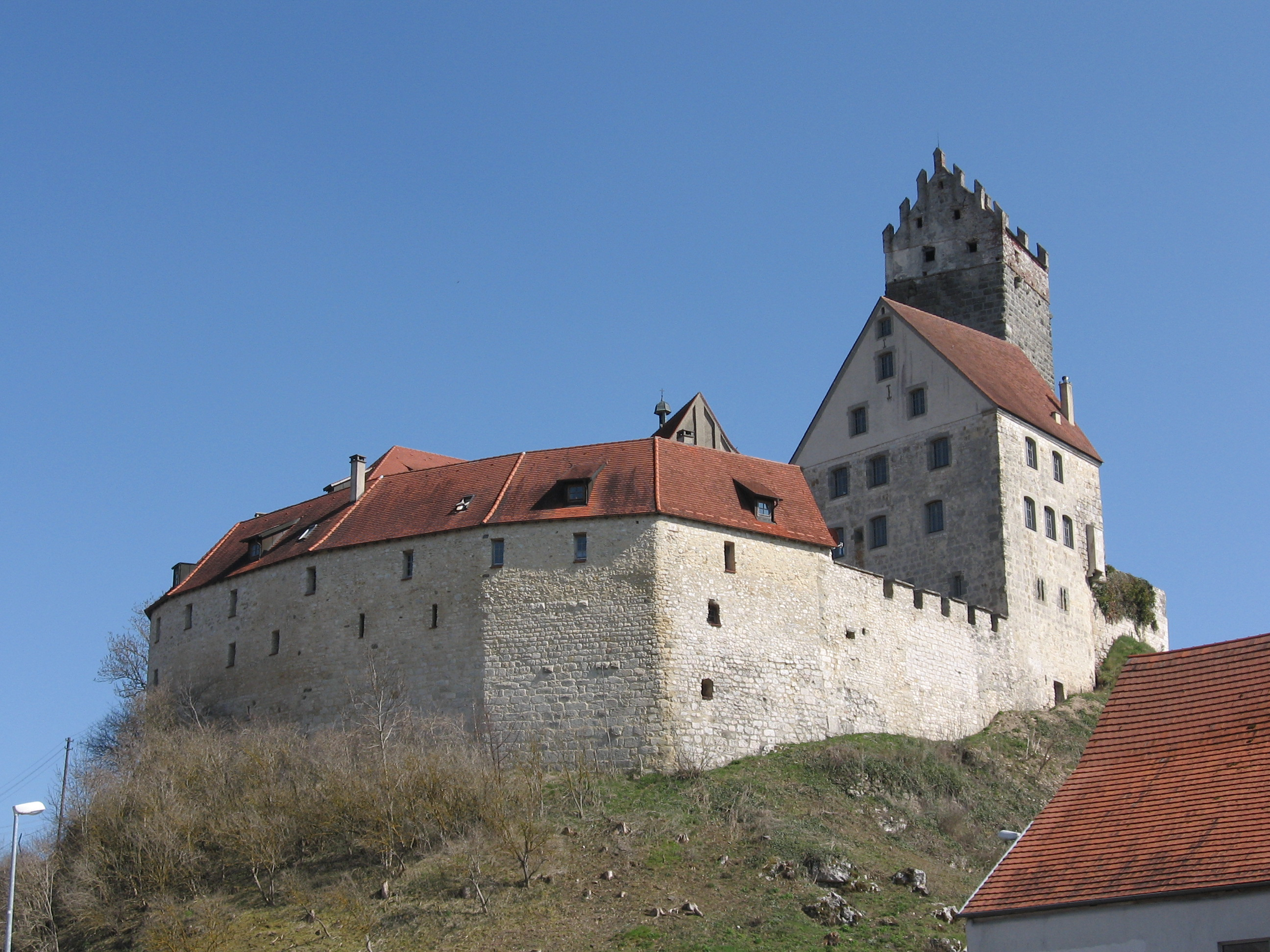 Katzenstein Castle by Dischingen in the Heidenheim district of Baden-Württemberg.